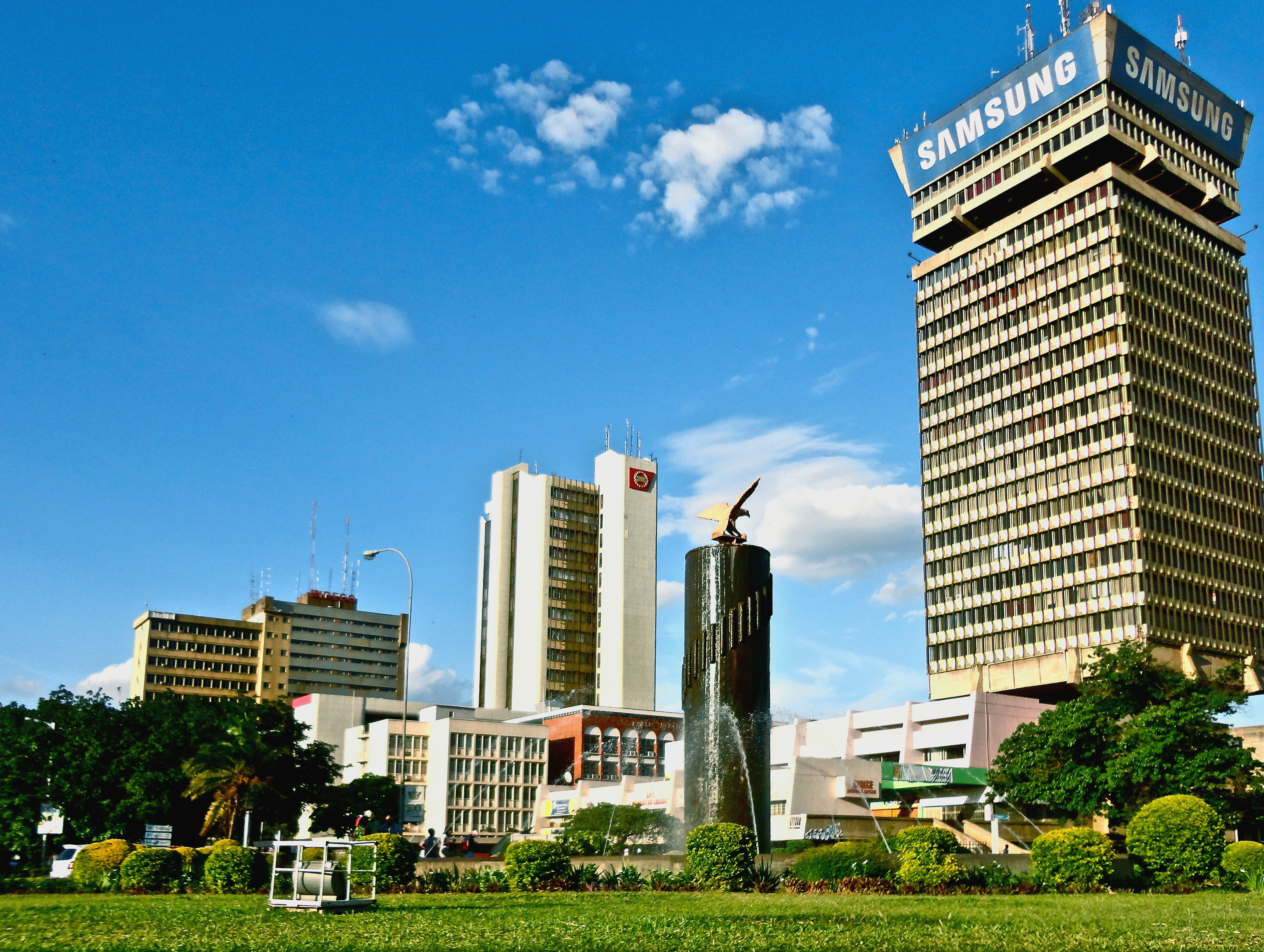 Downtown Lusaka showing the Findeco Building from the south end round-a-bout.